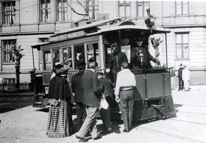 Kristiania Elektriske Sporvei Class A tram 1.